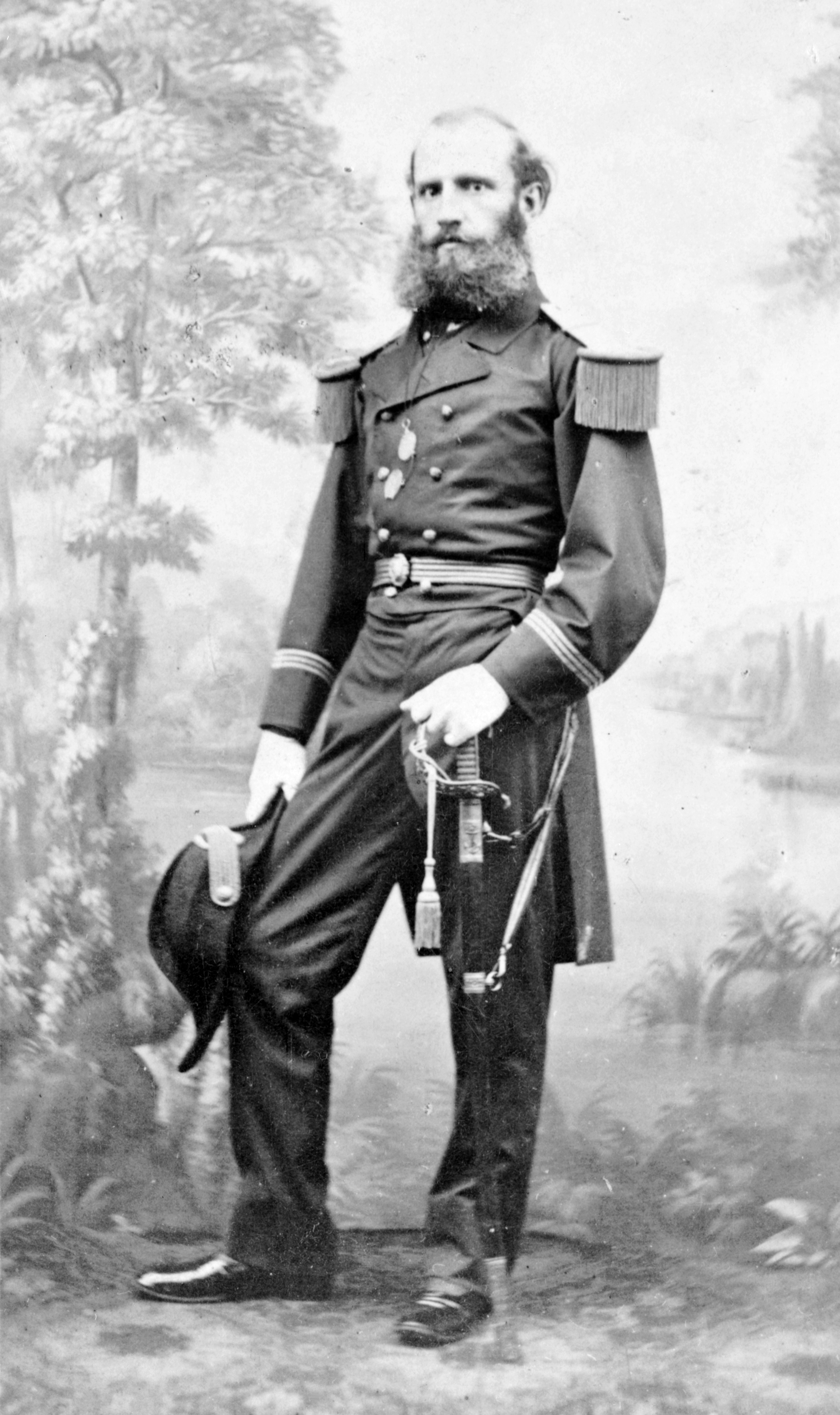 Austrian Admiral Wilhelm von Tegetthoff. On verso: Agm. Peraire Fotog., ? Calle ... del Real, Mexico.